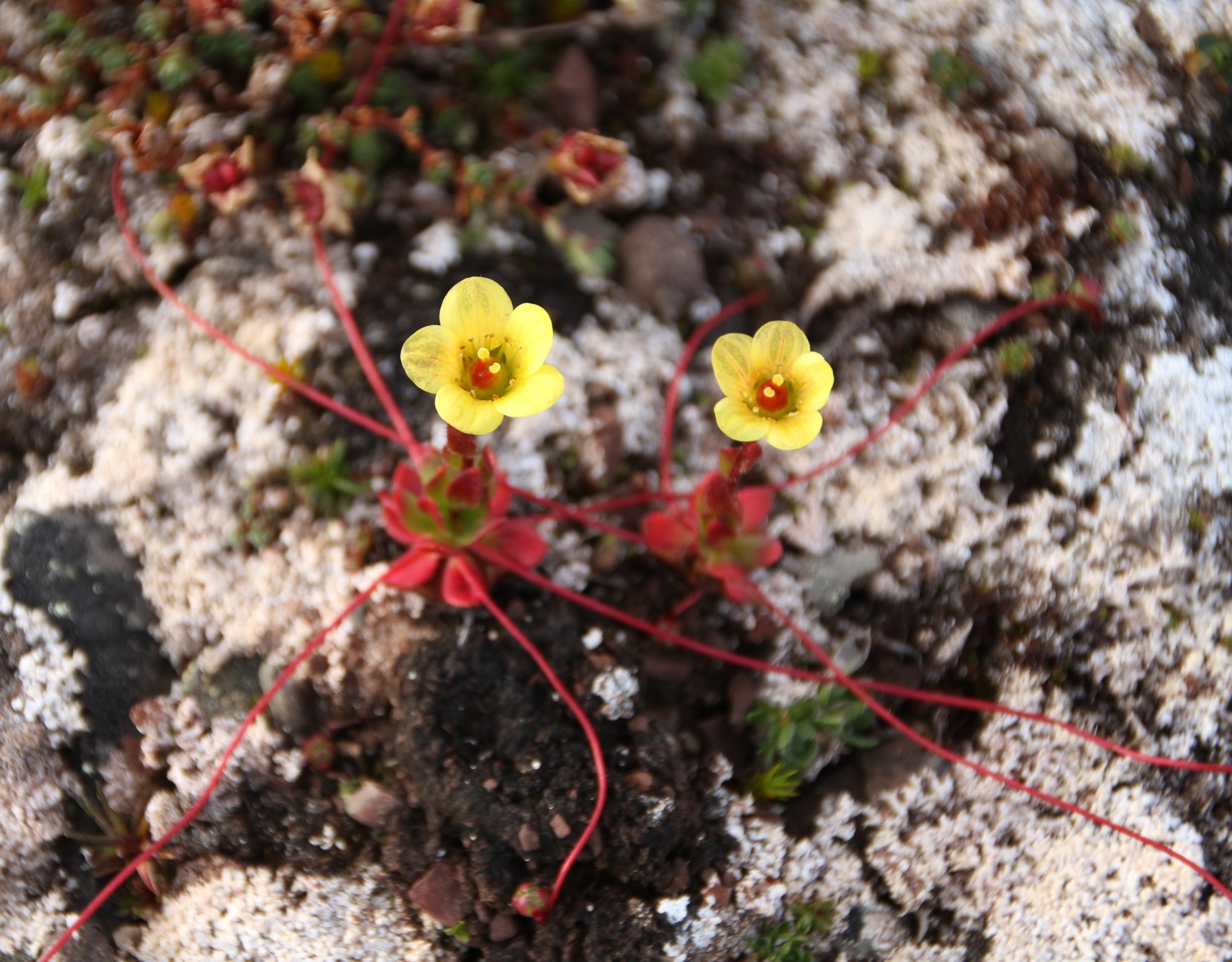 Saxifrage flowers observed at the island Spitsbergen - Svalbard. August 2012.